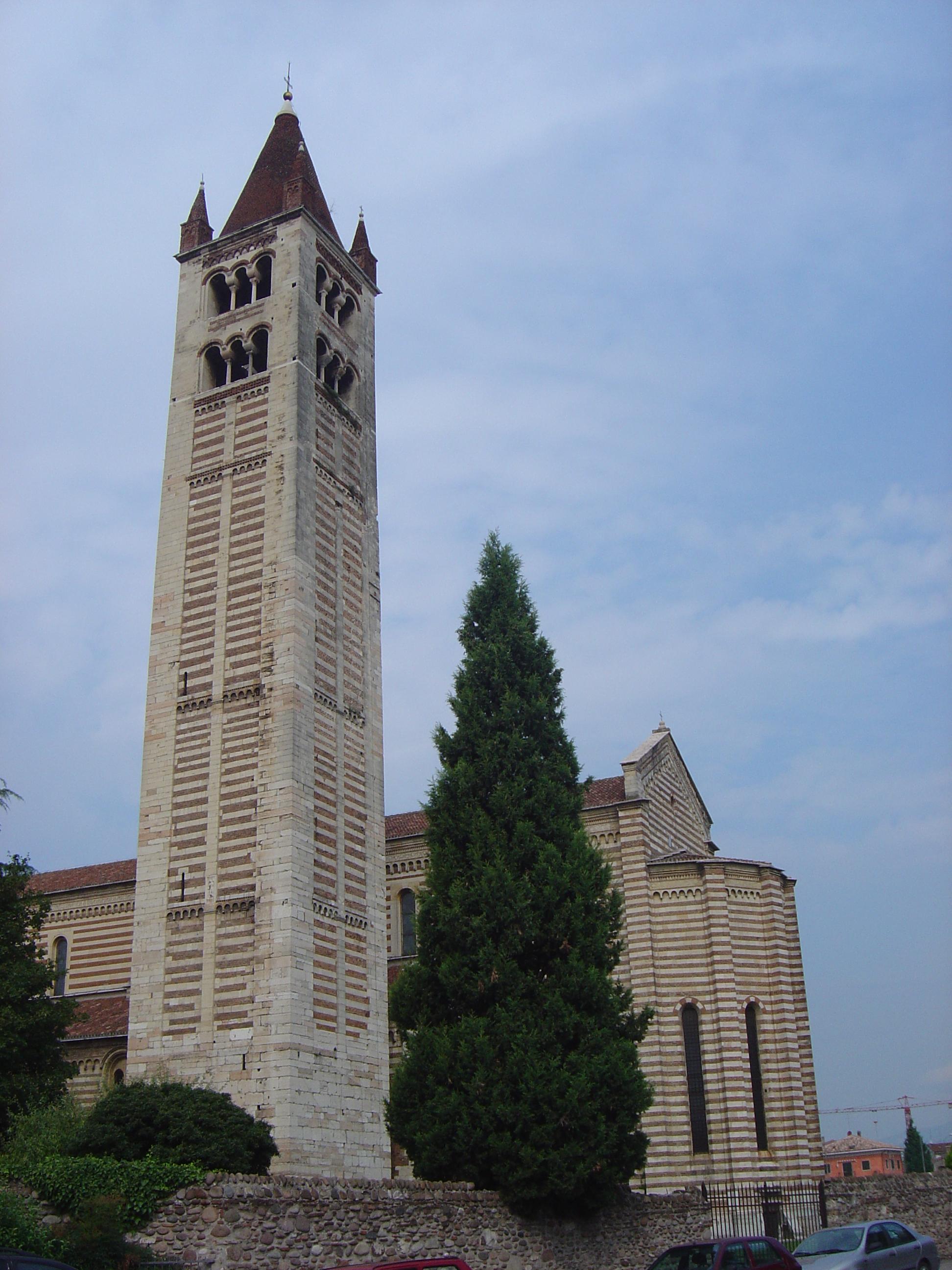 San Zeno basilica, Verona, Italy